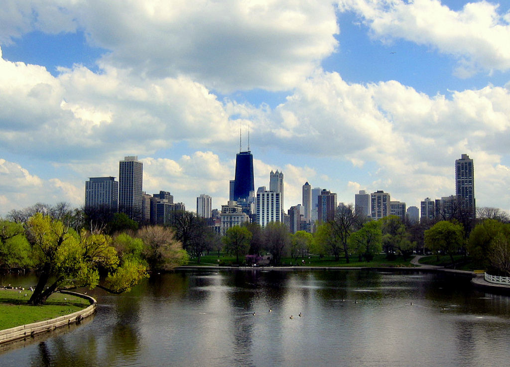 lincoln park, Location: Chicago.